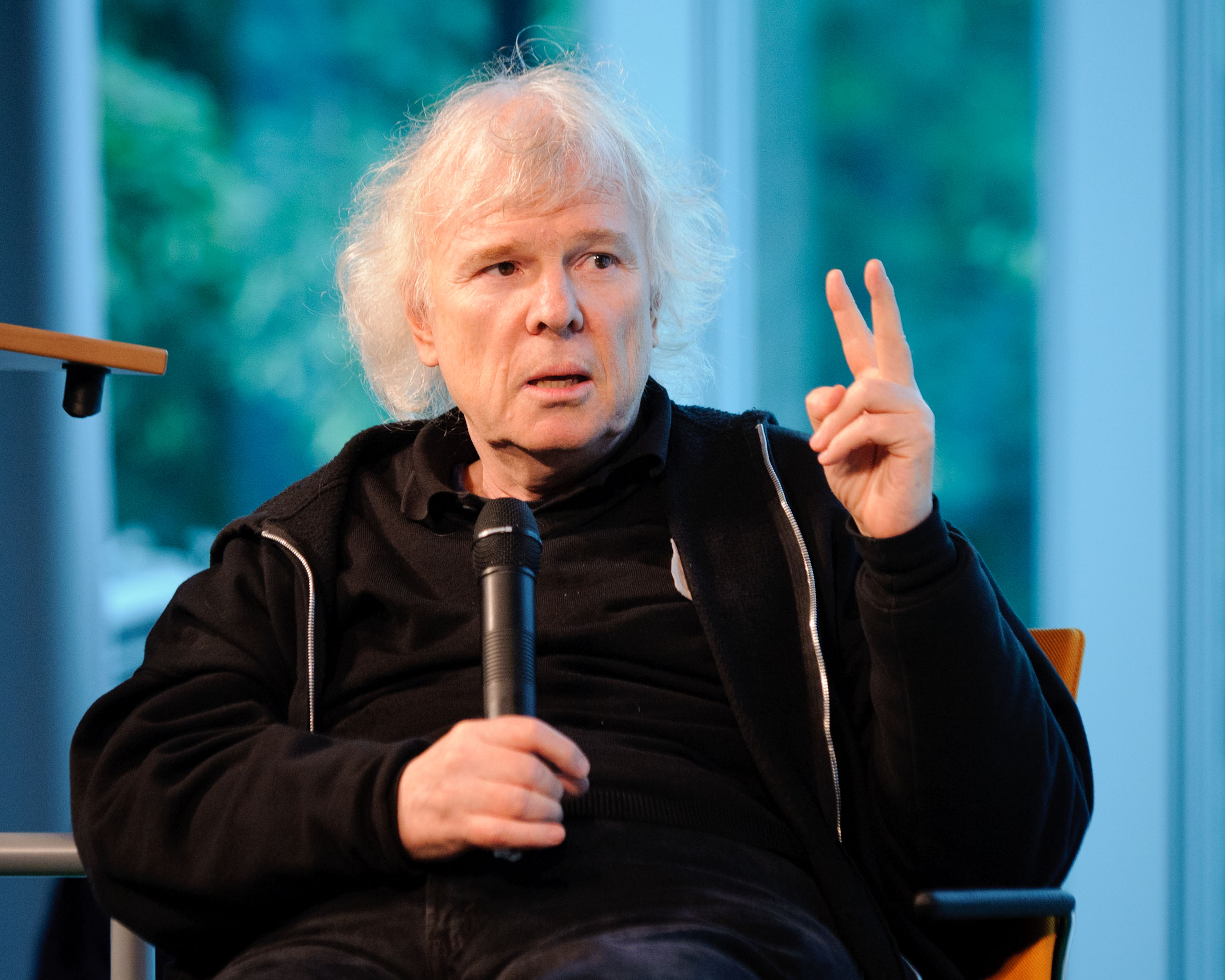 Prof. Andrei S. Markovits (Univ. of Michigan, USA) Foto: Stephan Röhl